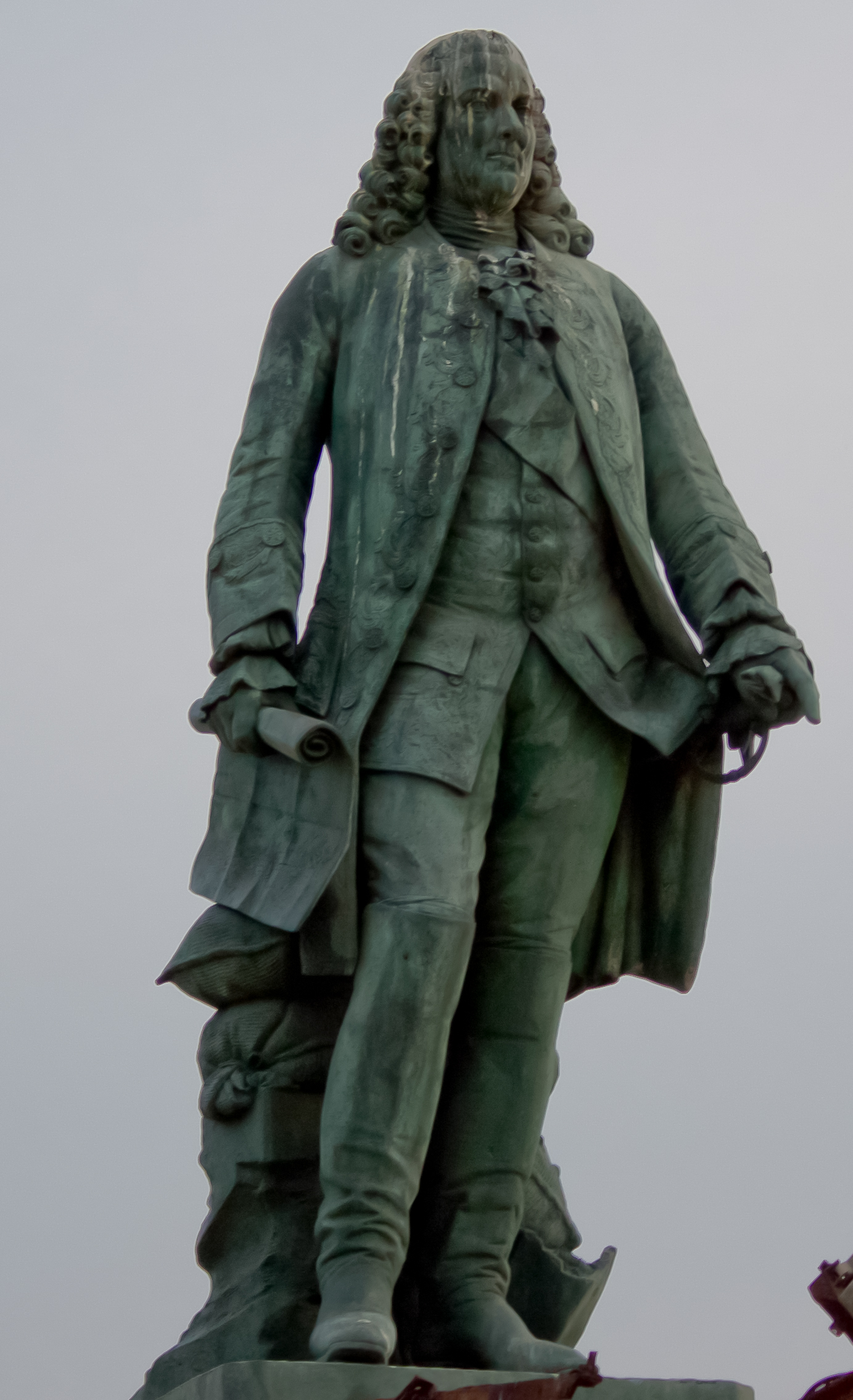 The statue of Joseph François Dupleix at Pondichery, India